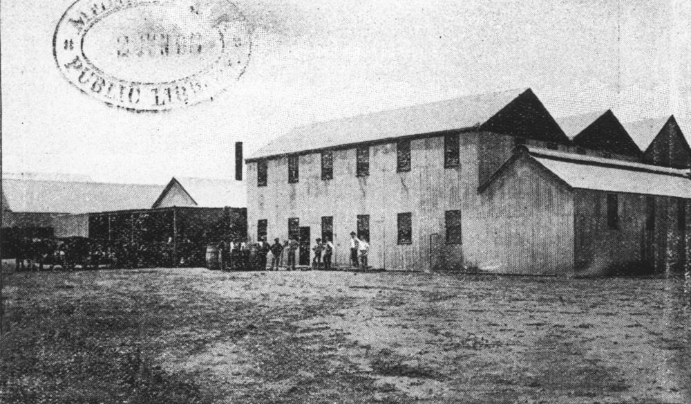 Woolscouring and Boiling Down Works, Longreach, 1898 Employees of the Woolscouring and Boiling Down Works line outside the building.